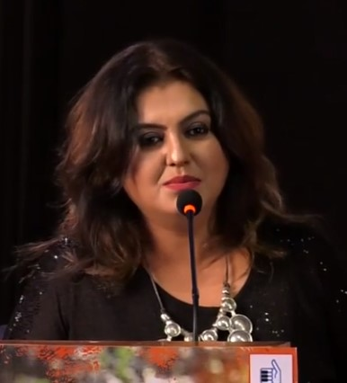 Sona Heiden interview 2017